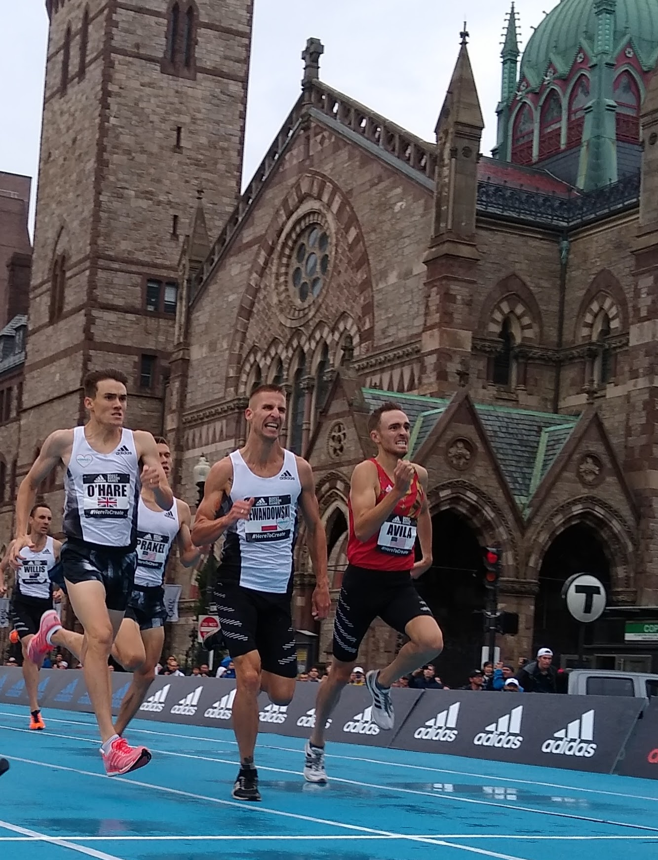 Marcin Lewandowski running the Back Bay Mile at the Adidas Boost Boston Games in 2019.